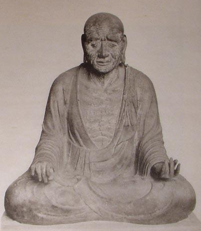 Statue of the Priest Gien (義淵僧正, gien sōjō) from the 8th century Nara period made by wood-core dry-lacquer technique. The sculpture was colored and has a height of 93.0cm. It is presently located at Oka-dera (岡寺) in Asuka, Nara. It has been designated as National Treasure of Japan.